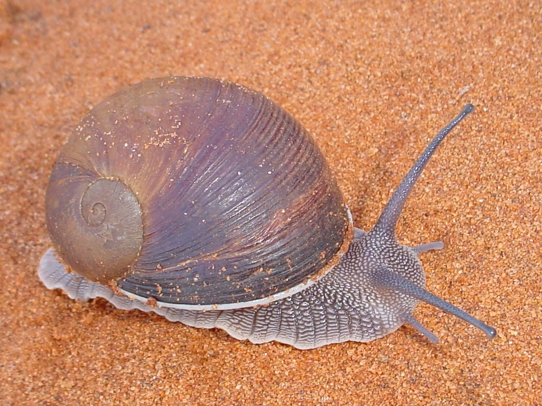 Landsnail (Helicophanta gloriosa) on sand in Berenty reserve, south Madagascar